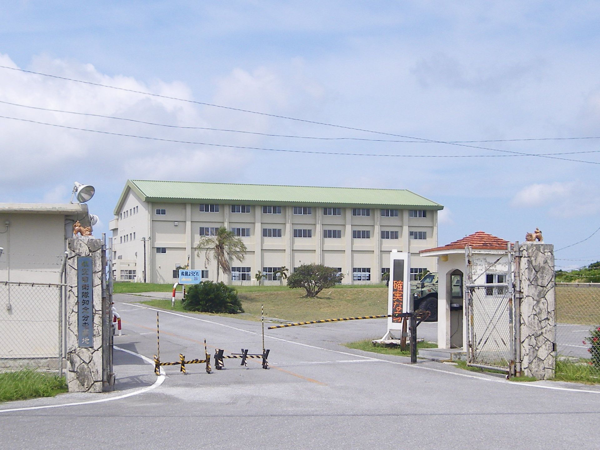 Entrance of Chinen Sub Base, Japan Air Self-Defense Force.